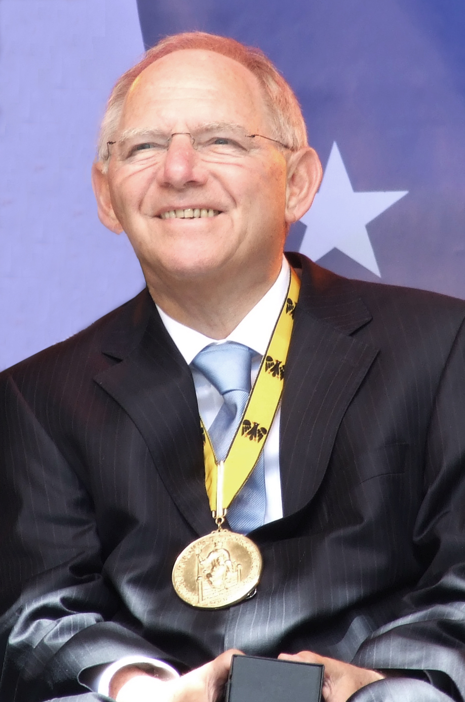 Wolfgang Schäuble at the Charlemagne Prize celebration 2012